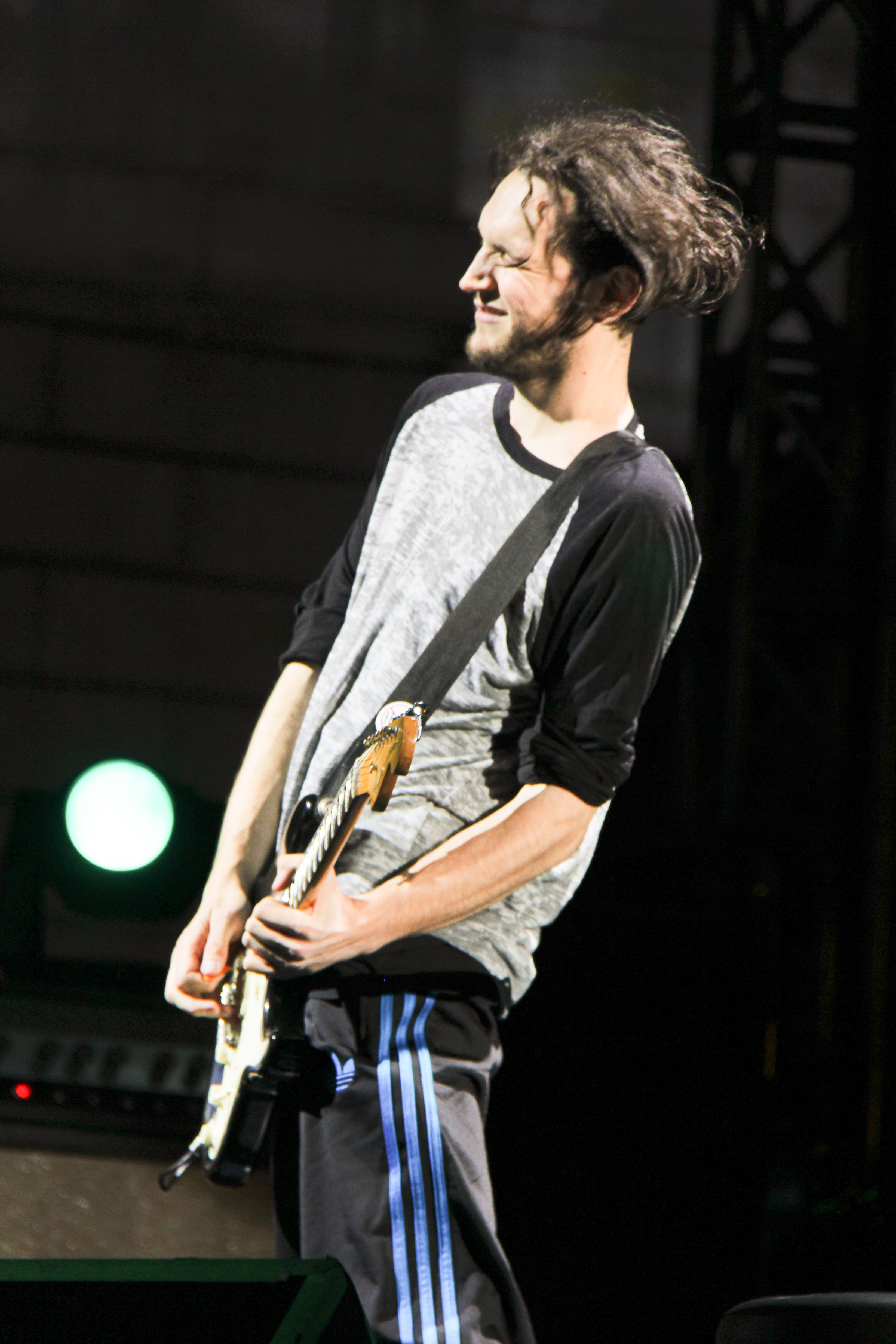 Red Hot Chili Peppers, Josh Klinghoffer, 2012